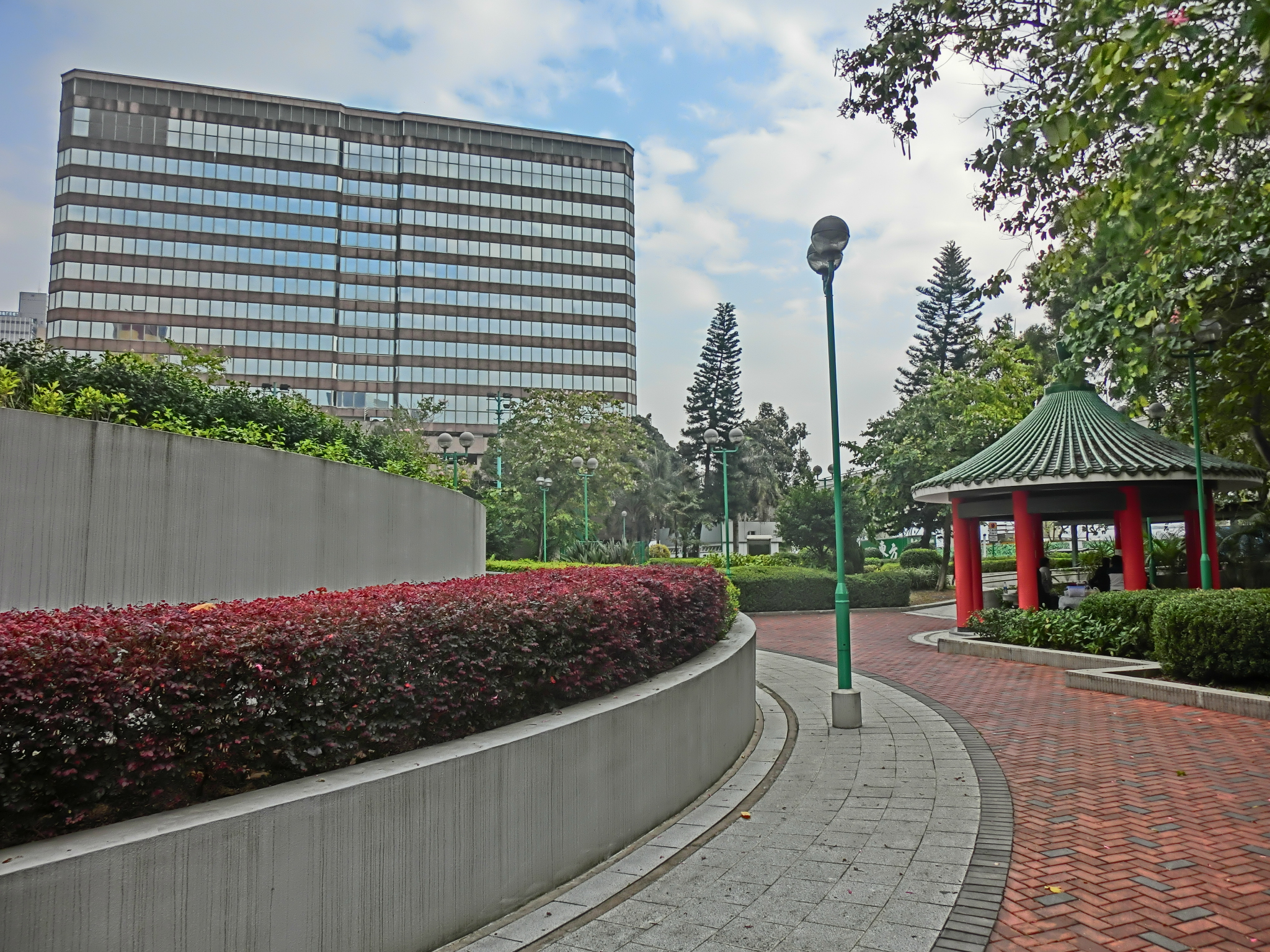 觀塘 海濱道公園, Hoi Bun Road Park, Wai Yip Street, Hoi Bun Road, Kwun Tong, Hong Kong